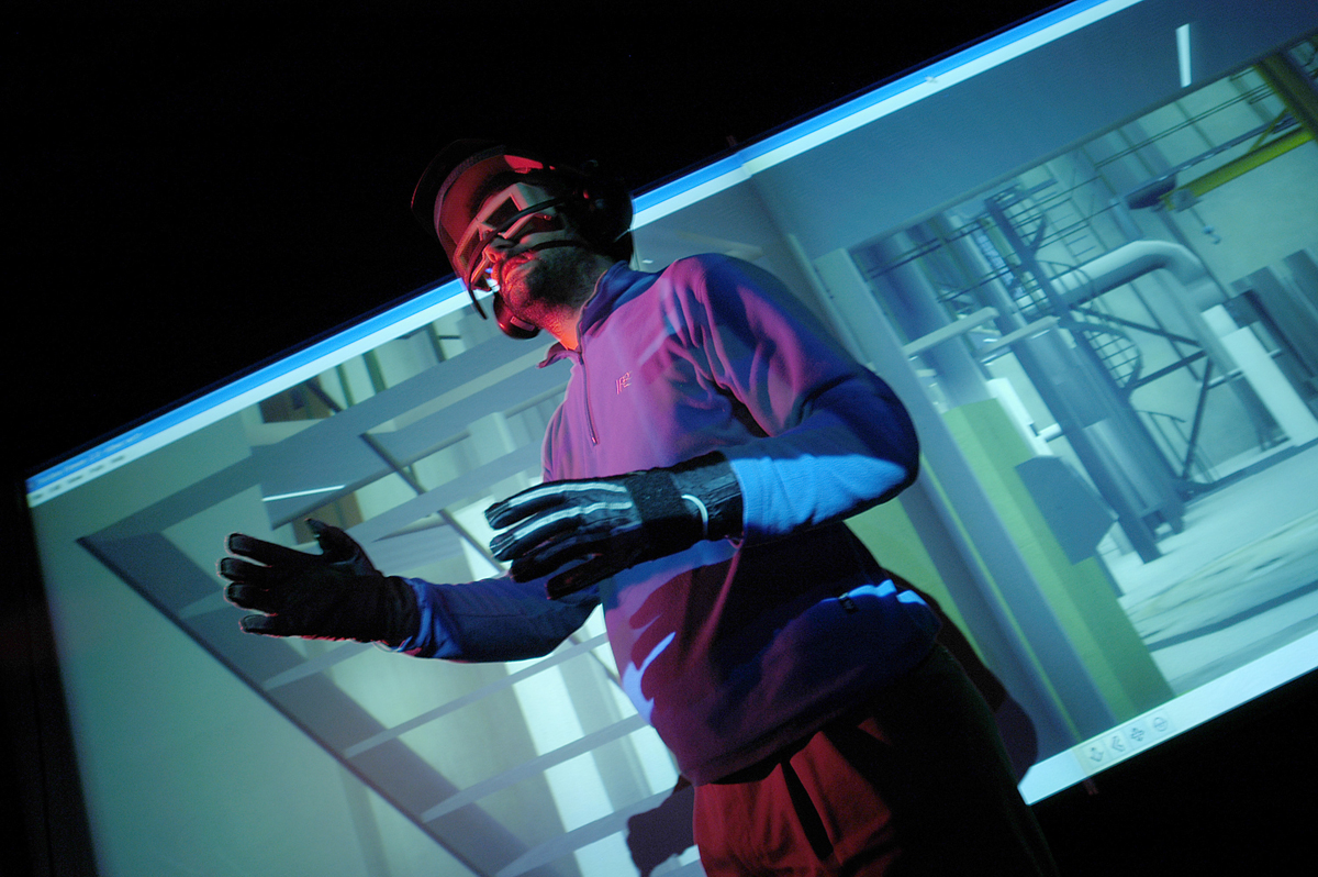 IFE, Kjeller, Norway has its own department for visualization technology, using among other things to design and evaluate control rooms for nuclear power plants, oil/gas and space technology. Norwegian: IFE har en egen avdeling for Visualiseringsteknologi. Denne teknologien brukes blant annet til design og evaluering av kontrollrom i kjernekraftverk, olje/gass og romfart.